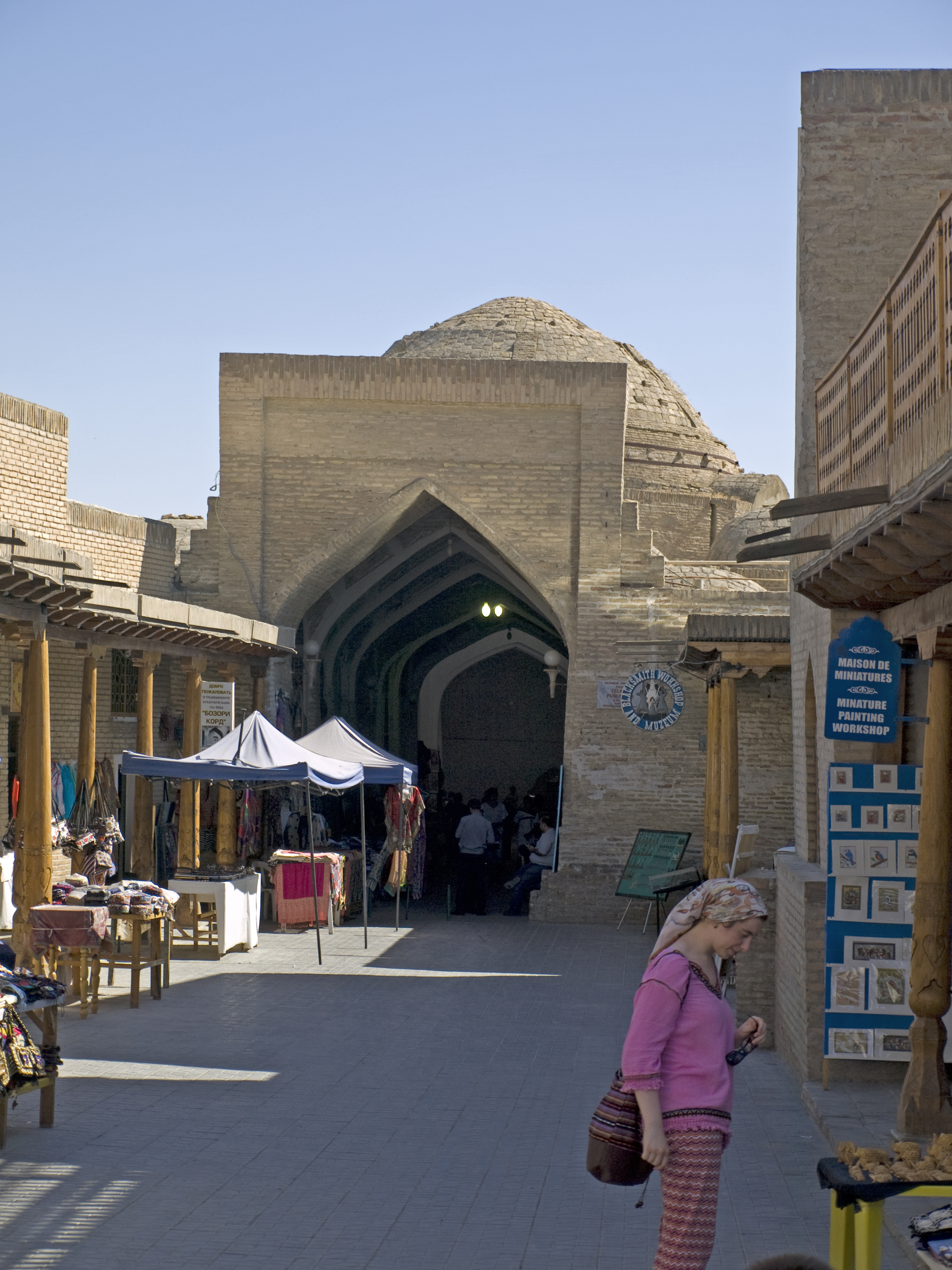 Toqi Telpakfurushon from the north